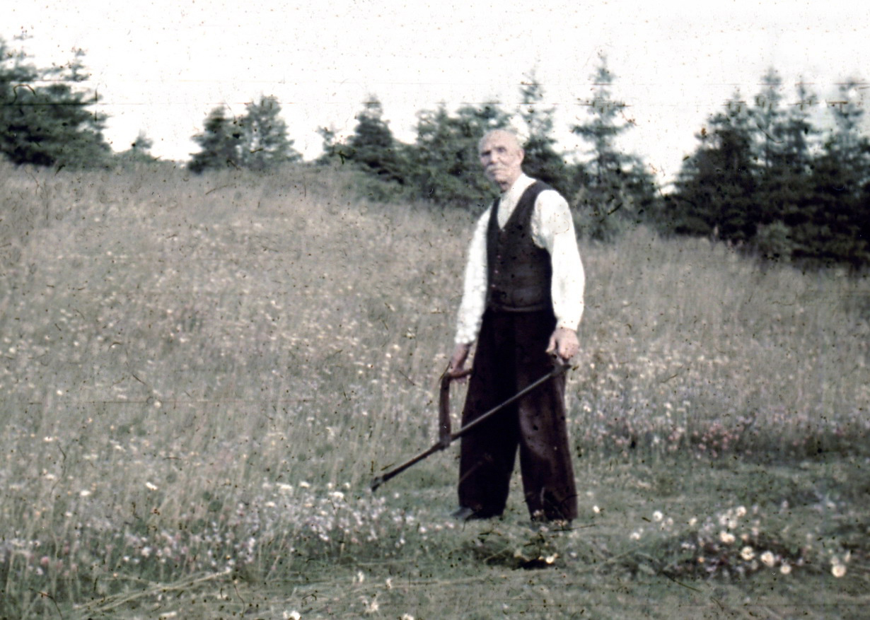 Cutting gras for hay, Thuringian Forest, Germany, early 1940s